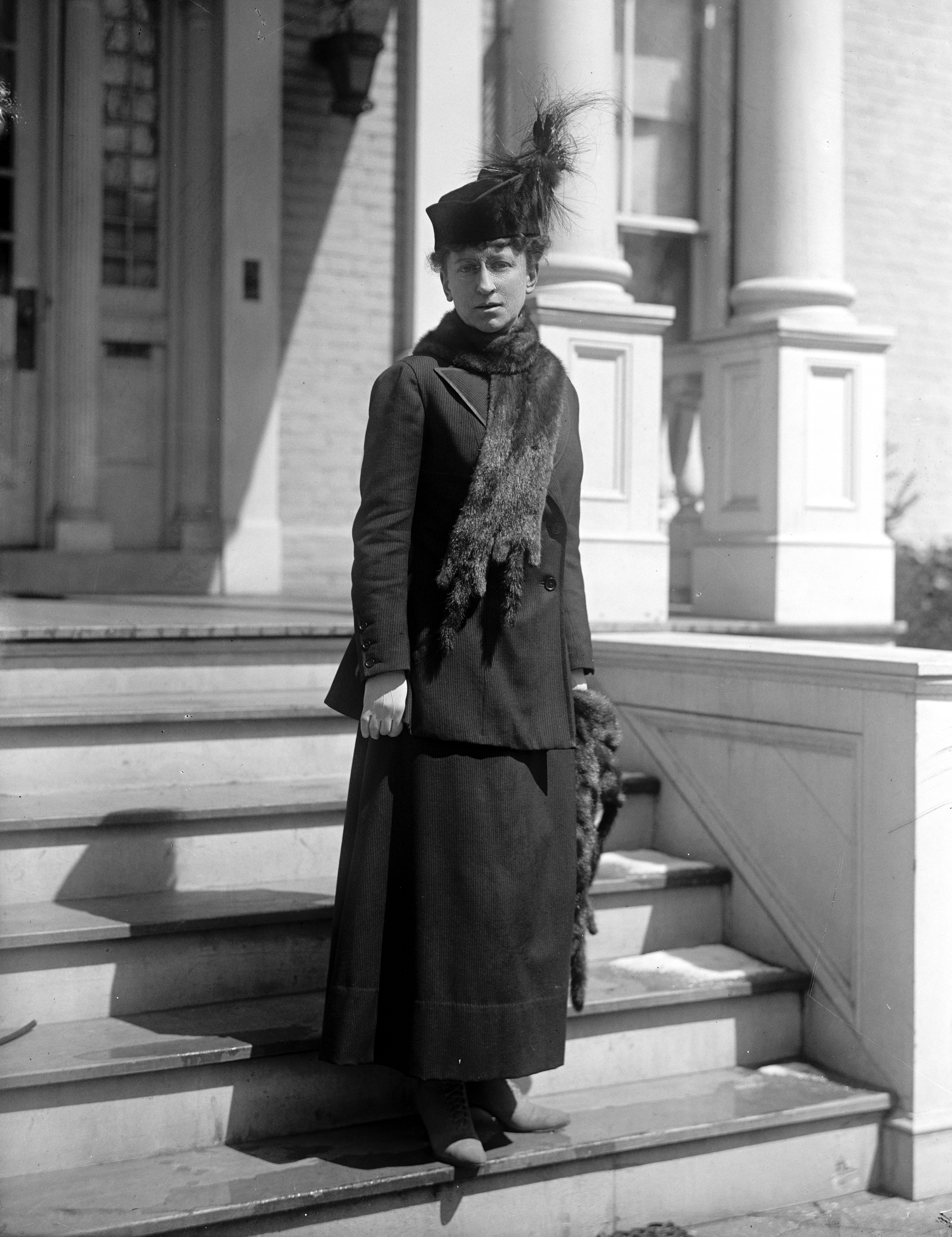 Elizabeth Leopold Baker, wife of Democratic politician and Secretary of War Newton D. Baker.